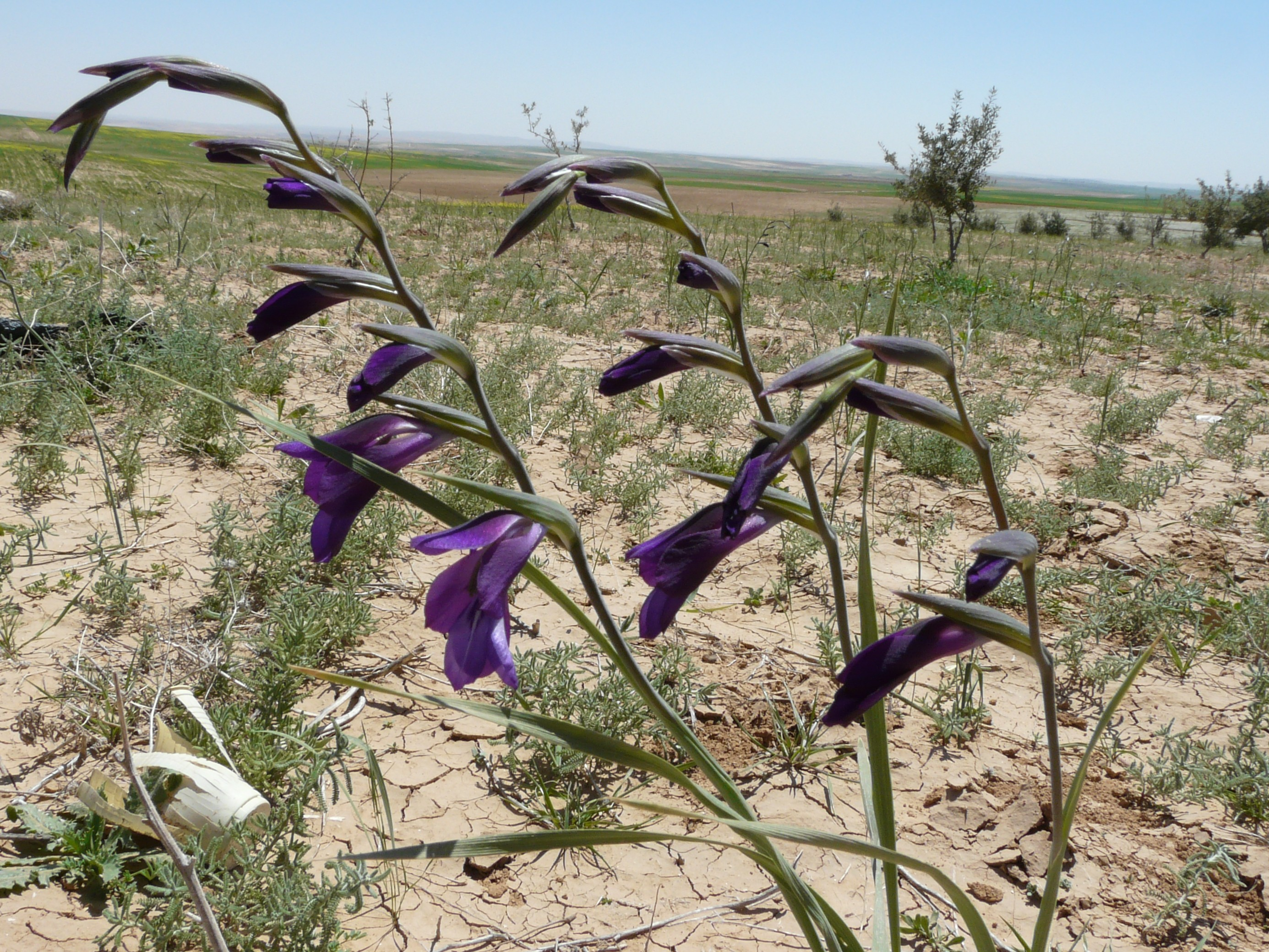 Wild plant in an arable field in Jordan.